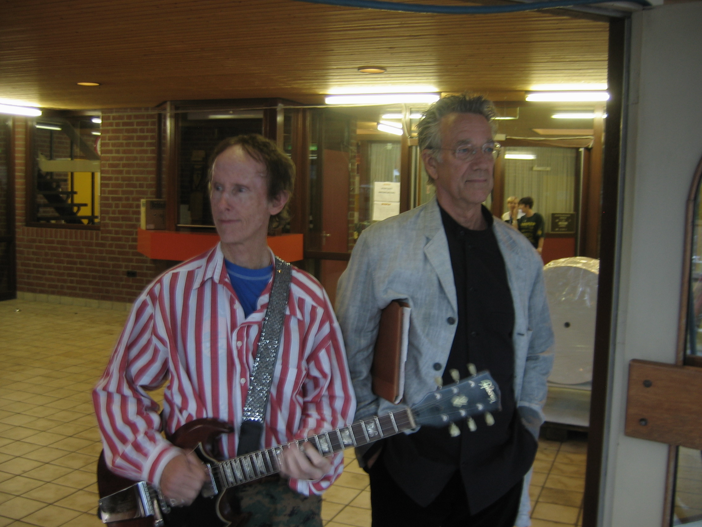 Robby Krieger and Ray manzarek at the Bospop Festival Weert